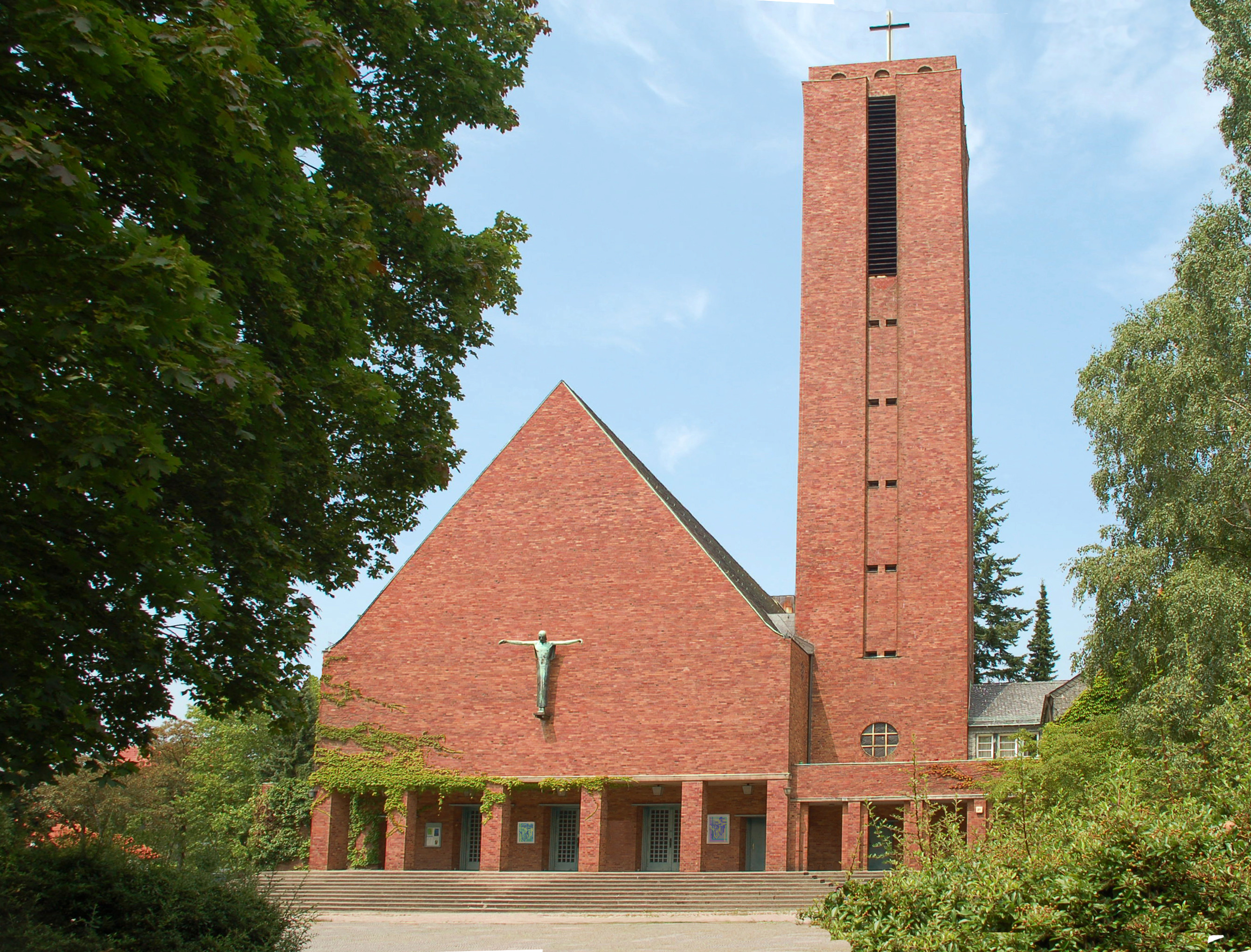 Jesus-Christus-Church.Berlin-Dahlem, 2007, produced by Berkan, picture shows “Jesus-Christus-Church.Berlin-Dahlem